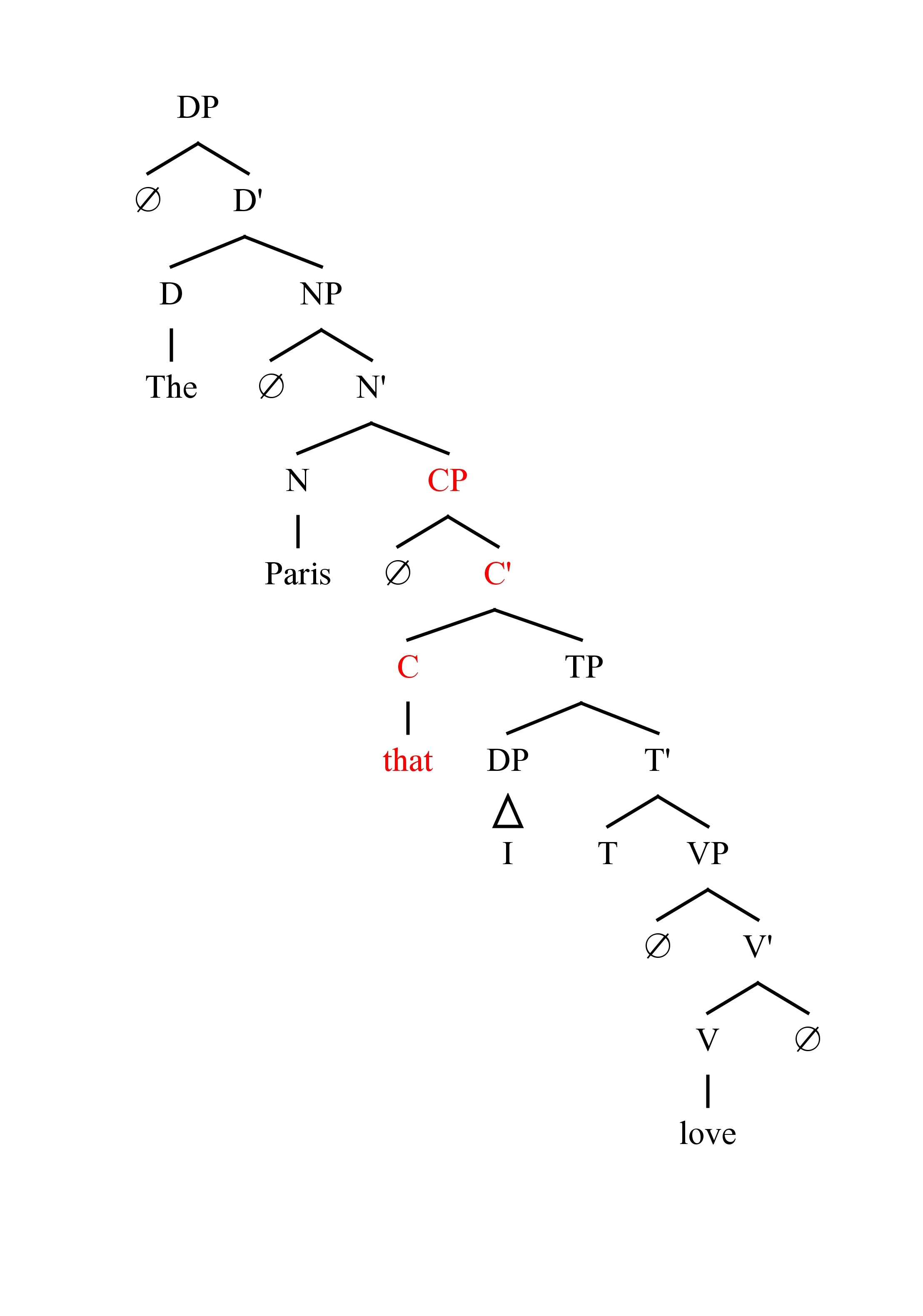 Tree displaying D-type Relativizers